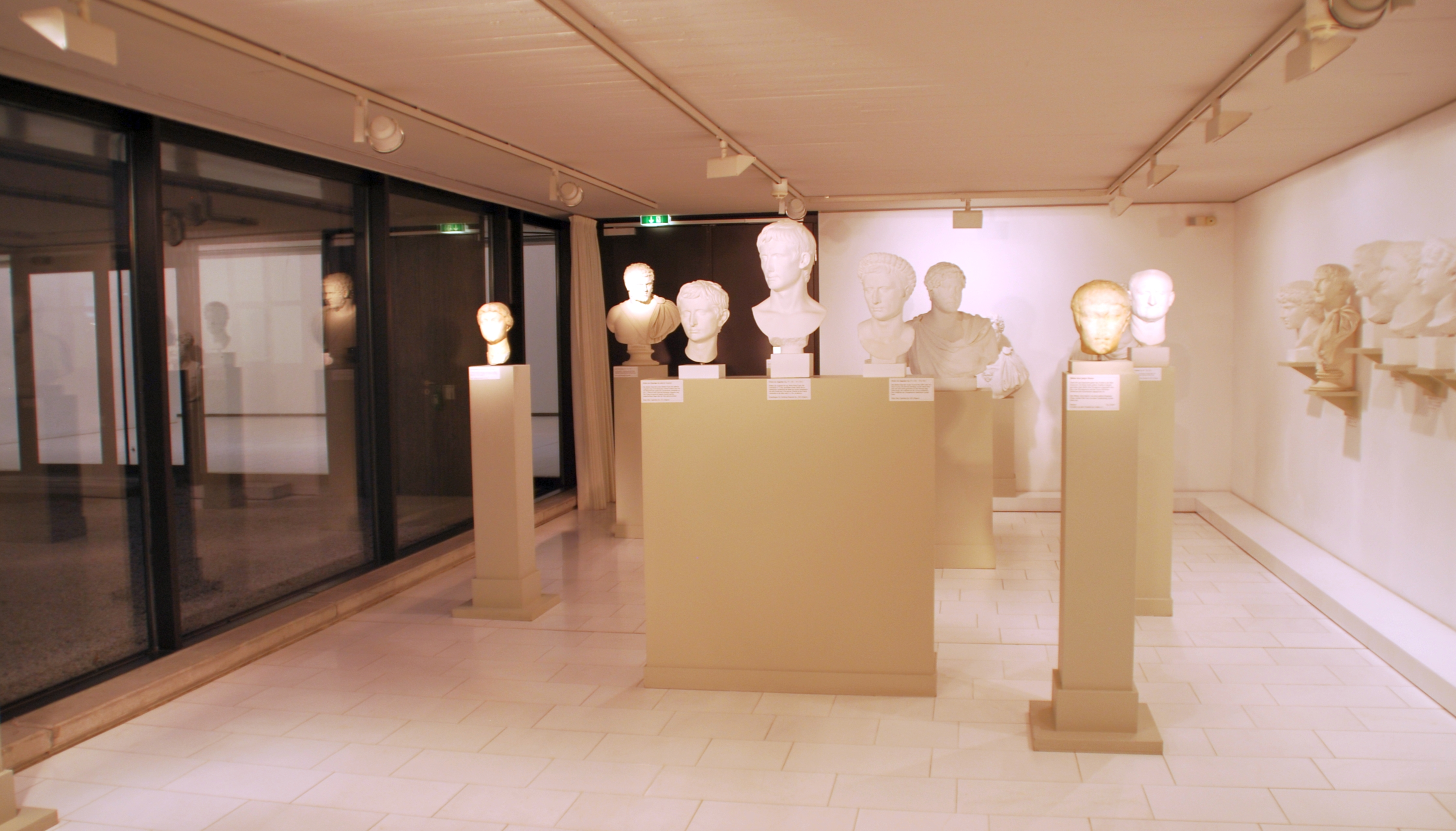 Exhebition views of the Antikensammlung Kiel.